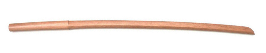 Red Oak Bokken - Made in Japan